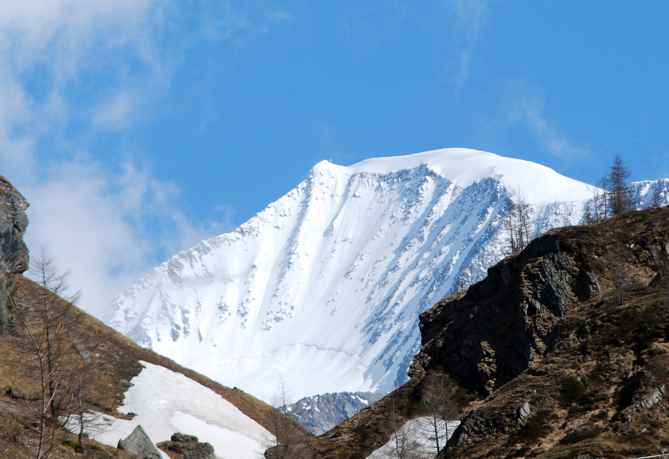 Großvenediger from S (Dorfertal)